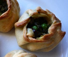 Food of Malta - Mrs. Agius' makes home made spinach and pea Qassata